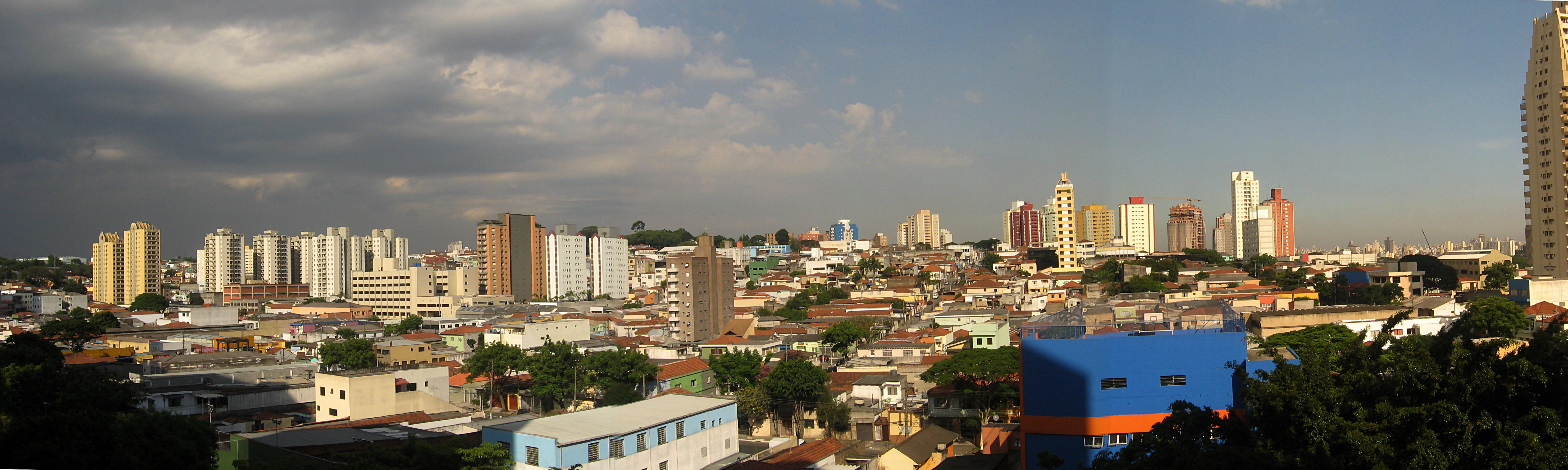 Panoramic view of Casa Verde neighbourhood, São Paulo City, Brazil.